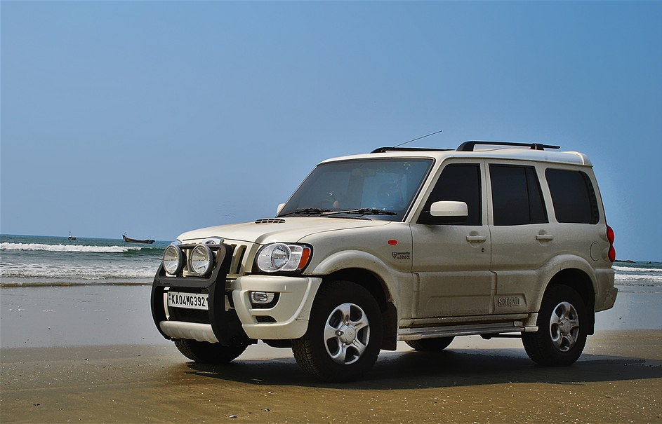 Mahindra Scorpio - Mhawk 2.2 ltr